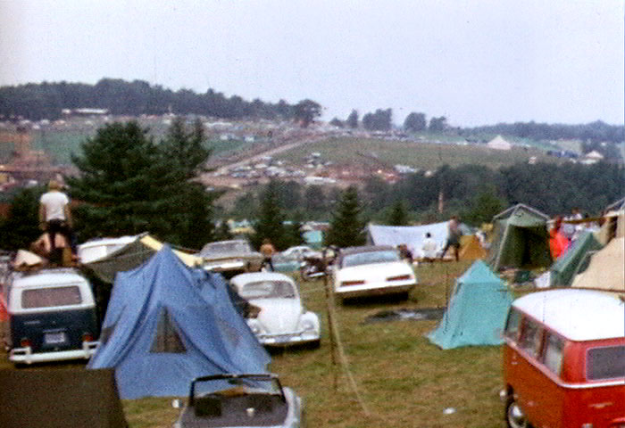 Tents at the Woodstock Festival. Volkswagens were popular in the camping area at Woodstock. The rear of the stage can be seen in the left background of the photo.